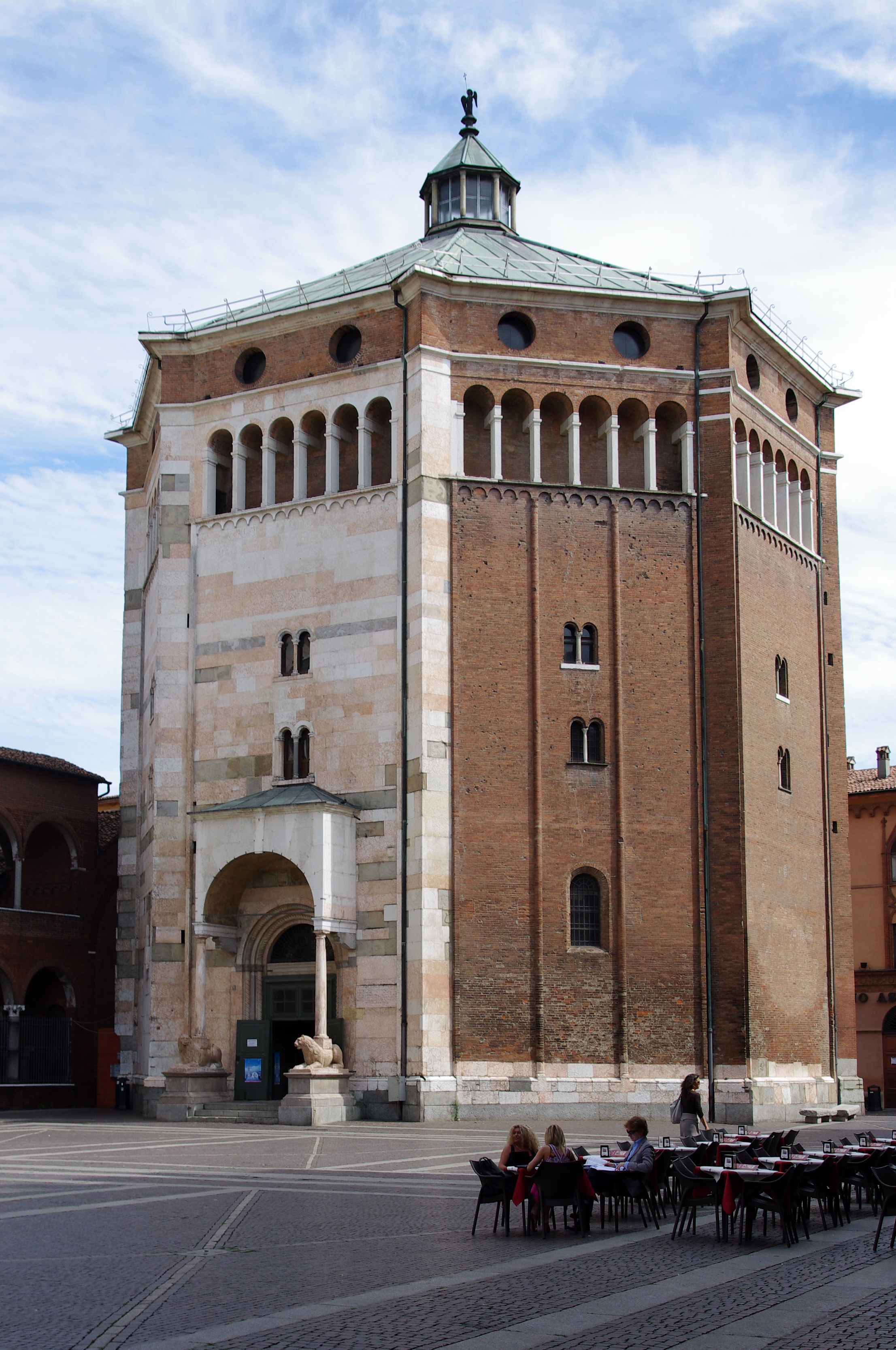 The Cremona Baptistery